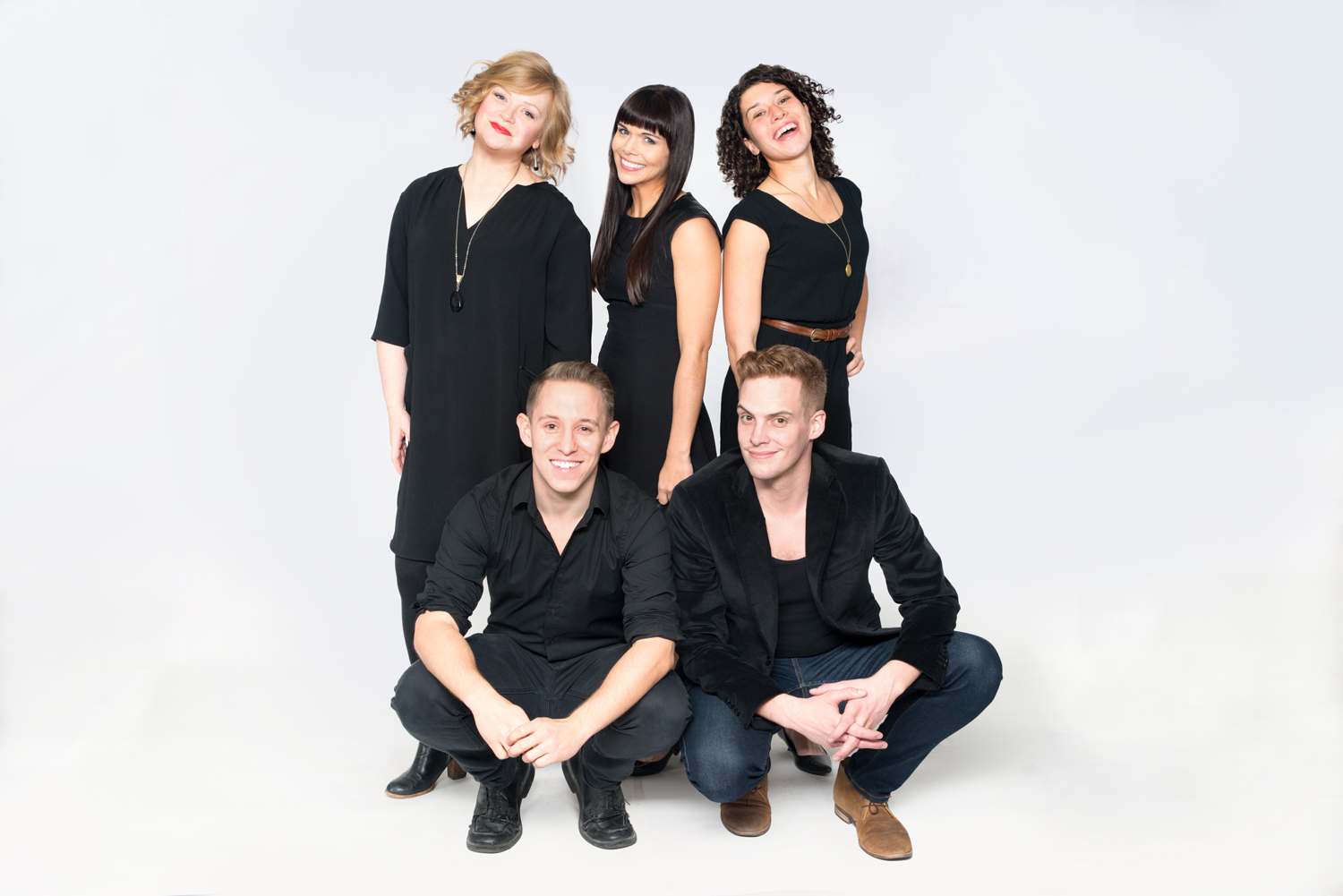 The members of Hot Thespian Action [L-R] Jane Testar, Garth Merkeley, Shannon Guile, Ryan Miller, Jacqueline Loewen